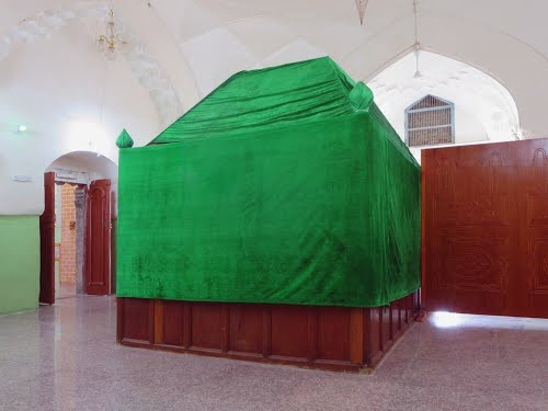 Al-Ezer